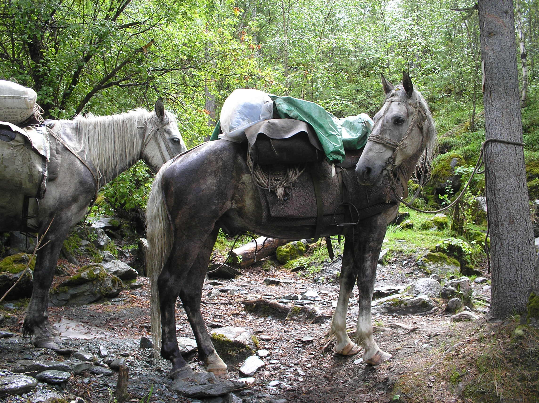 Altai Republic, Ust-Koksinsky District